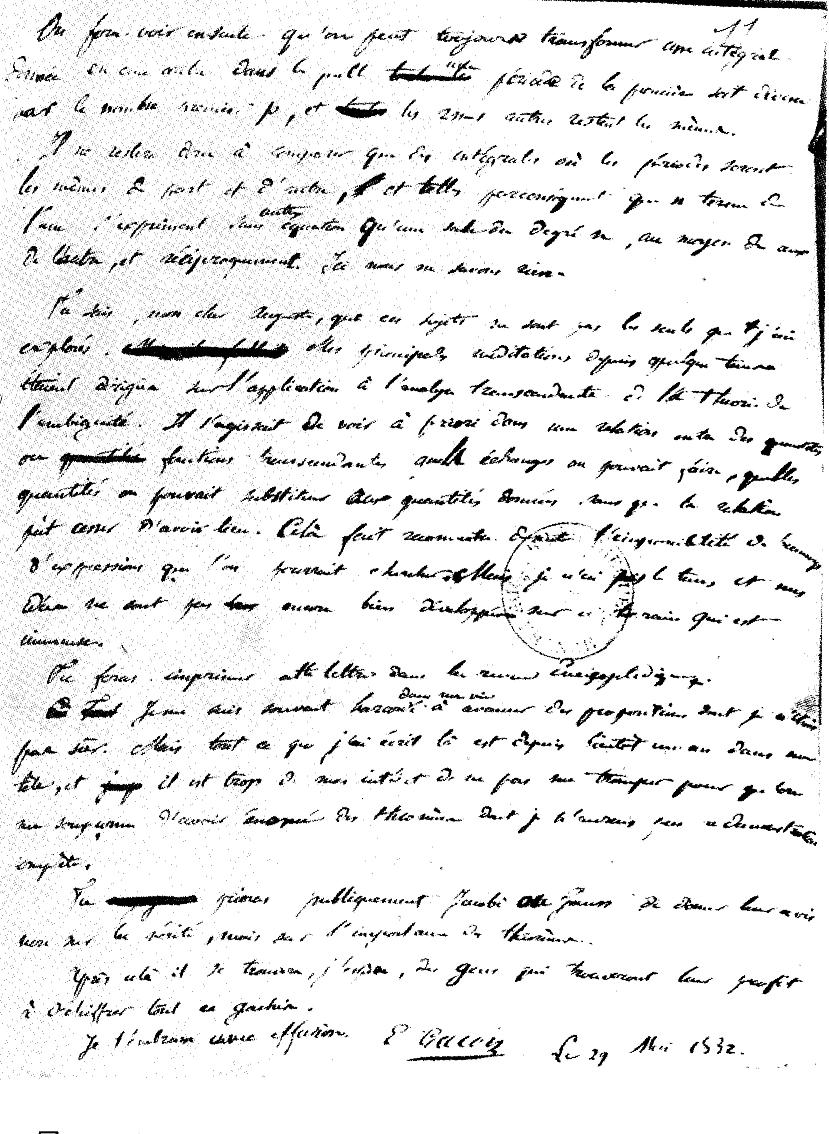 This is the last page of letter from Évariste Galois, French mathematician, to his friend Auguste Chevalier.